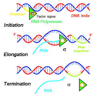 Transcription